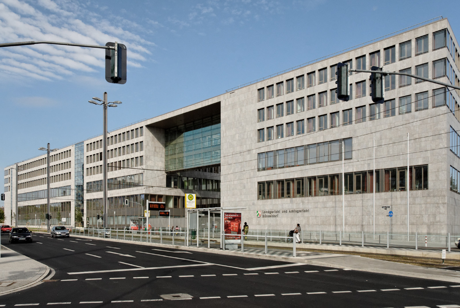 Regional Court in Düsseldorf-Oberbilk, Germany